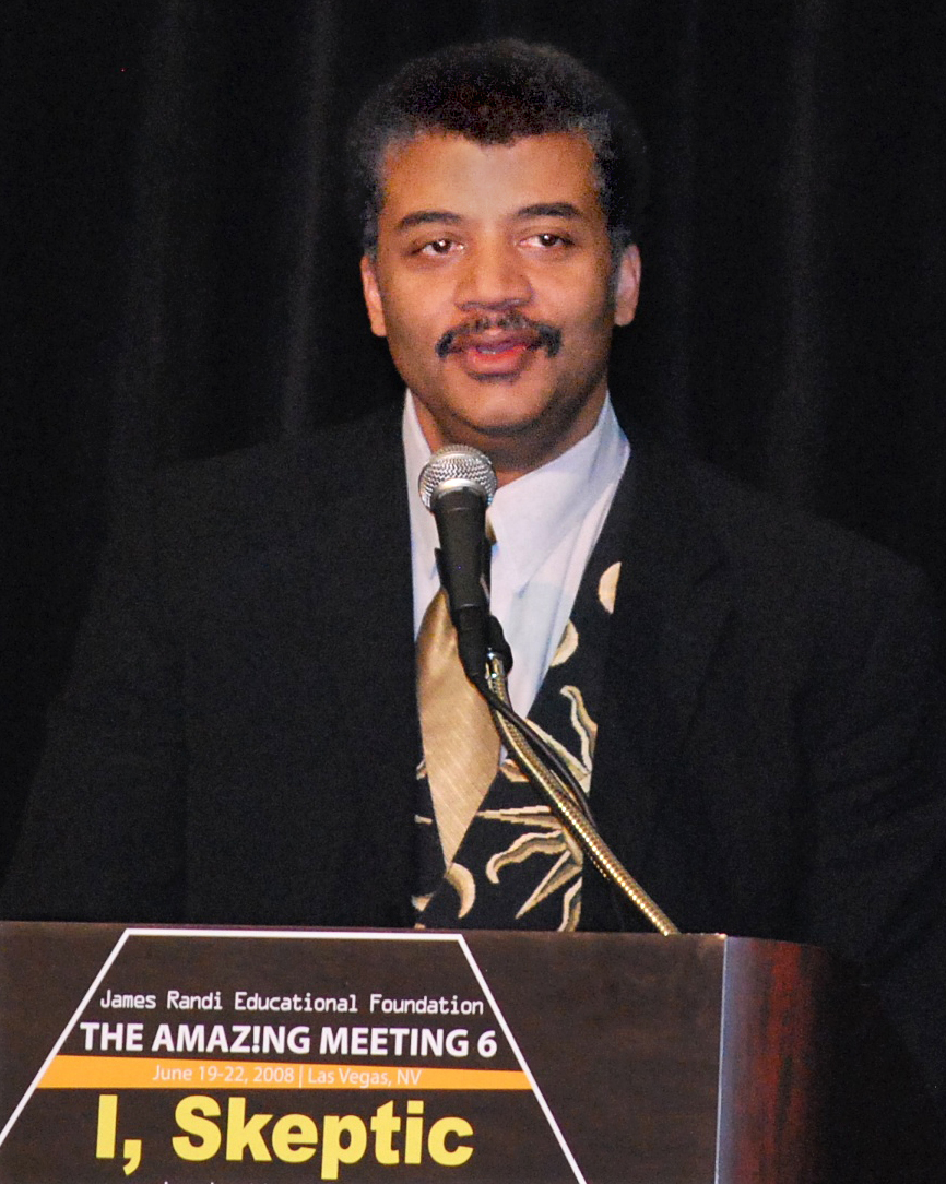 Neil deGrasse Tyson at The Amazing Meeting 6.